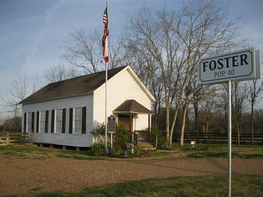 Photo shows the Foster Community Museum in Foster, Texas. The building is located on the east side of Farm to Market Road 359 about 1.2 miles northeast of its intersection with Farm to Market Road 723. A state historical marker is on the building.